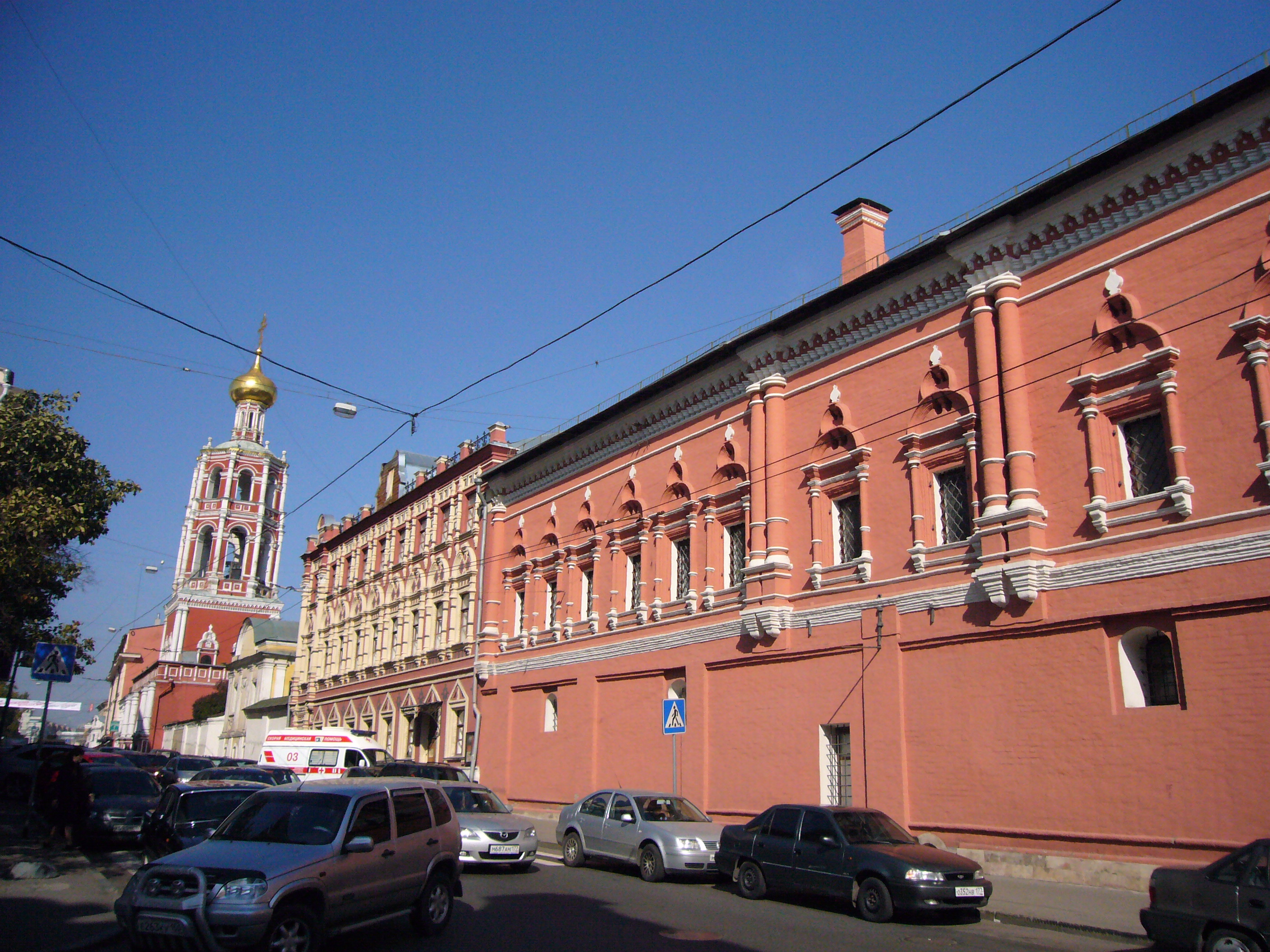 View of Petrovka Street from Petrovsky Lane, Moscow, Russia